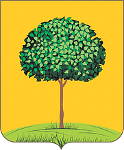 Lipetsk City